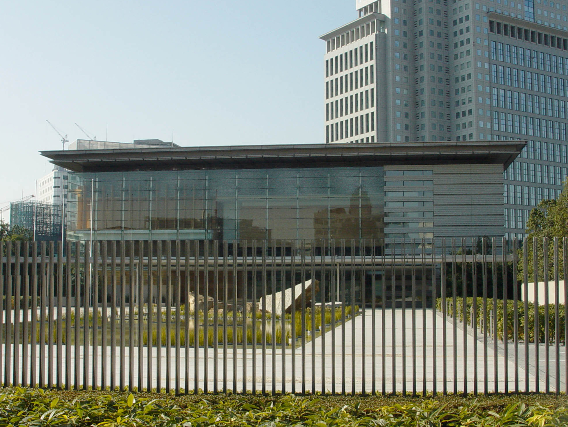 The Prime Minister's Official Residence. It is the principal workplace and residence of the Prime Minister of Japan.